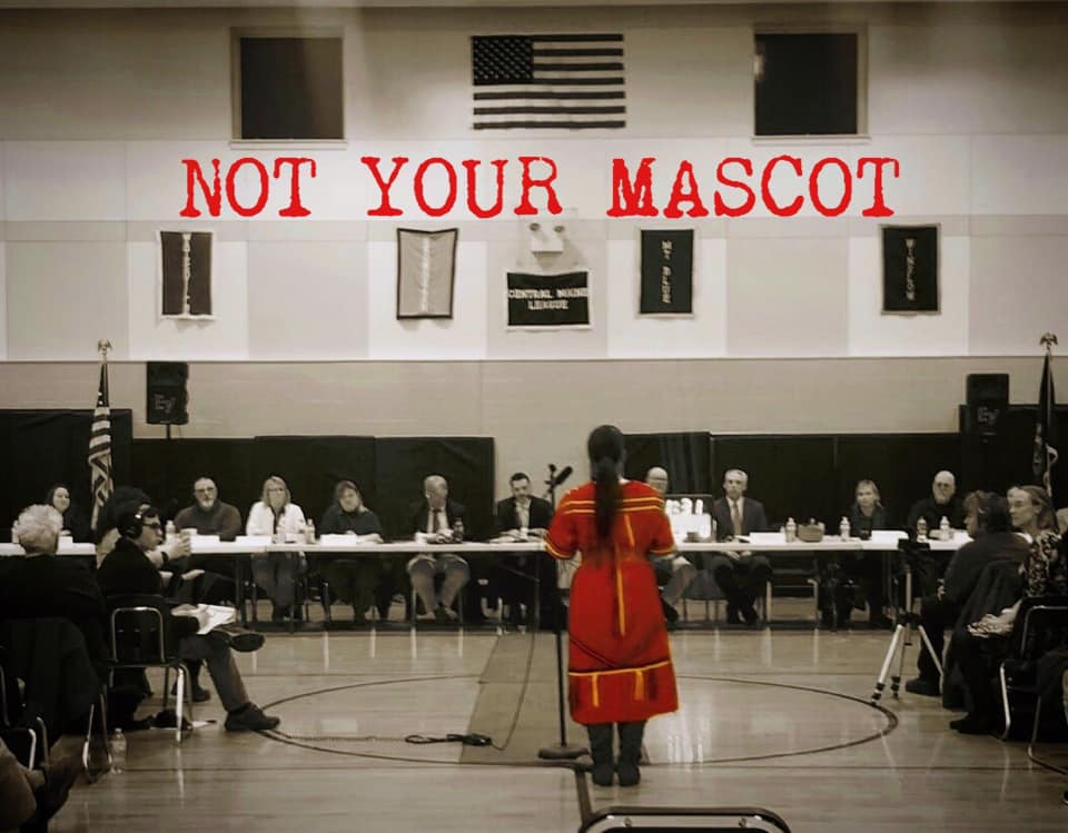 Native Americans of Maine, Mascot controversy, Penobscot